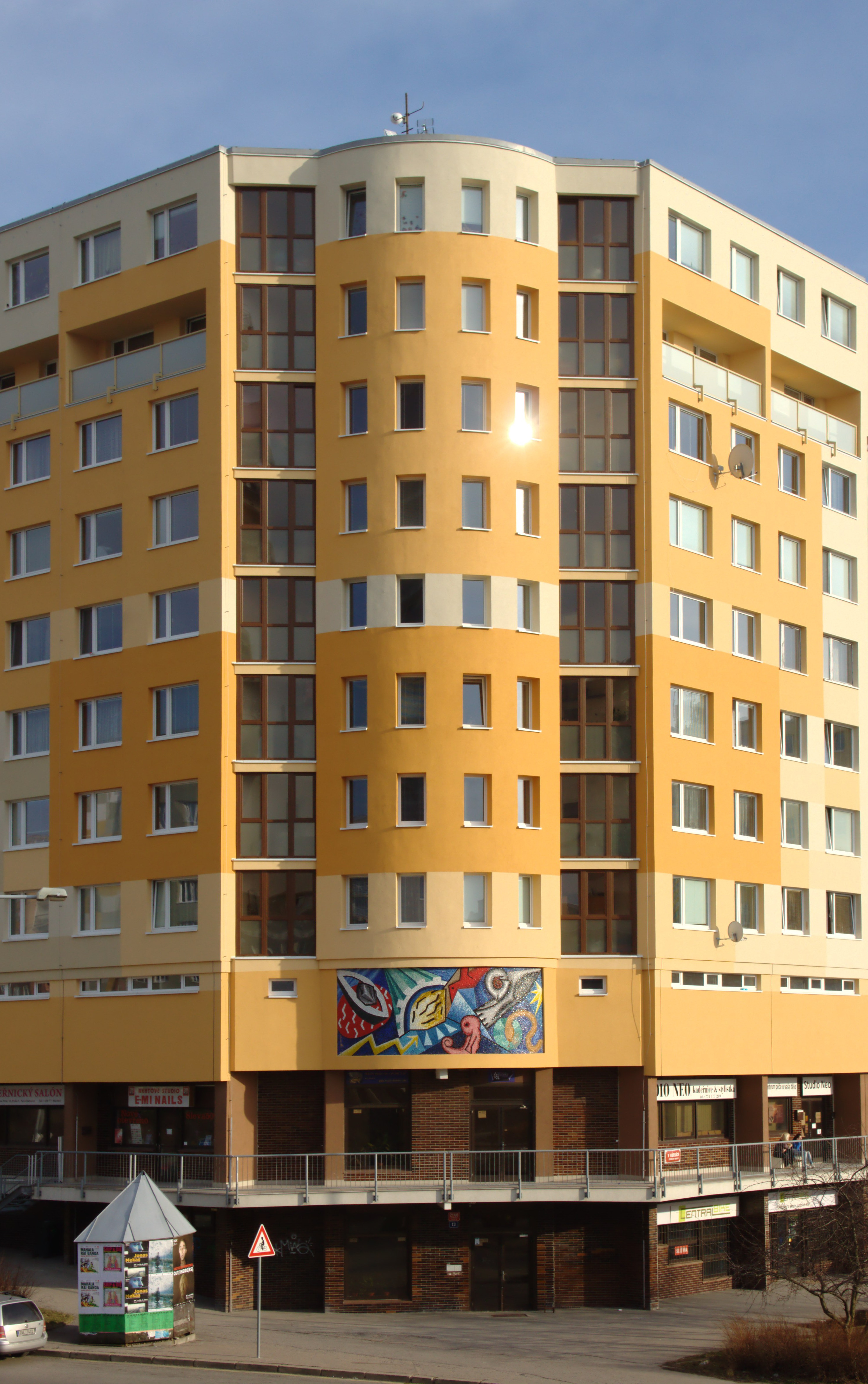 Nové Butovice residential area during a clear early spring day, Prague, CZ